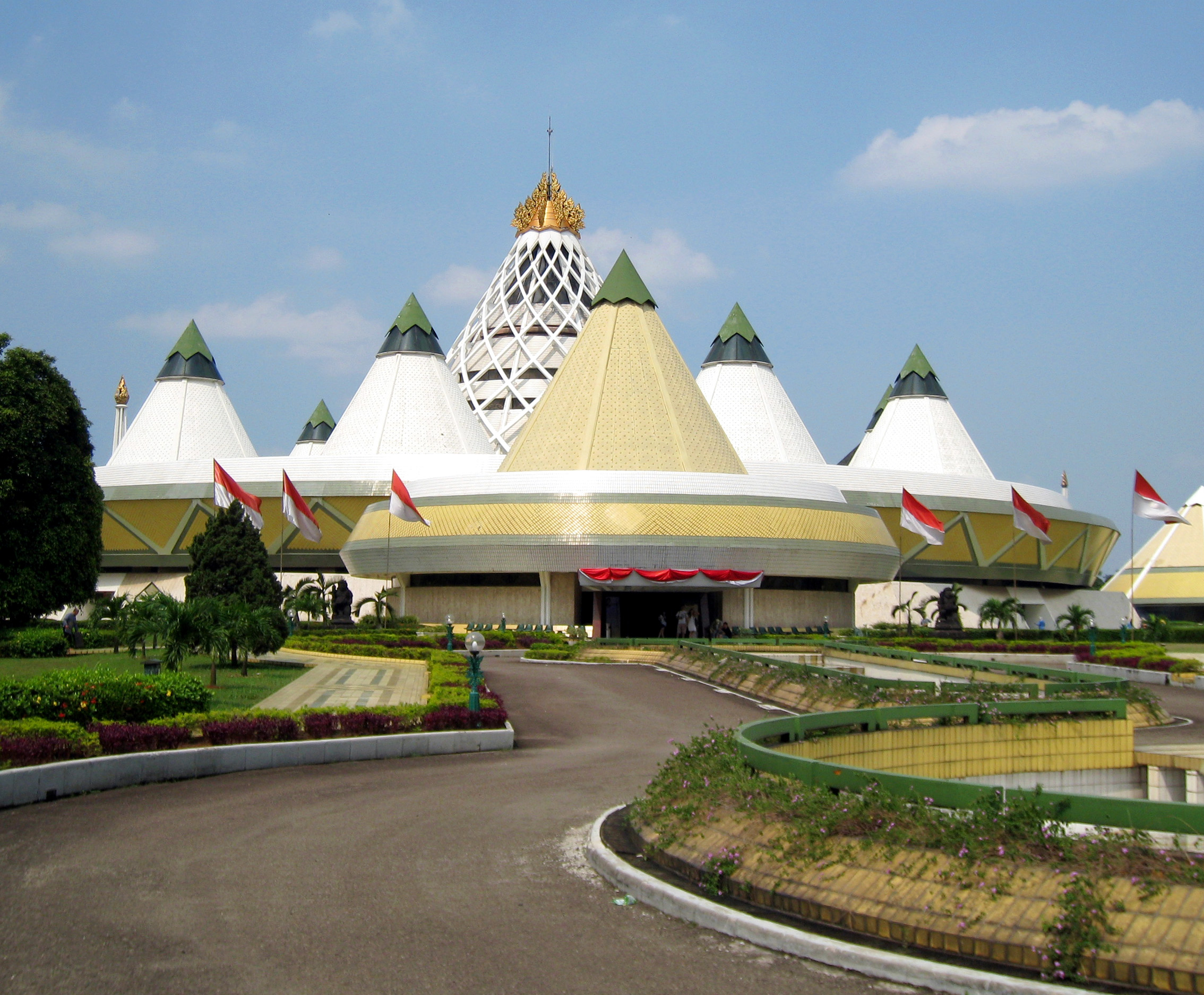 The facade main entry of Purna Bhakti Pertiwi (Suharto) Museum. Taman Mini Indonesia Indah, East Jakarta. The museum building resembles tumpeng, rice cone dish in Javanese tradition.